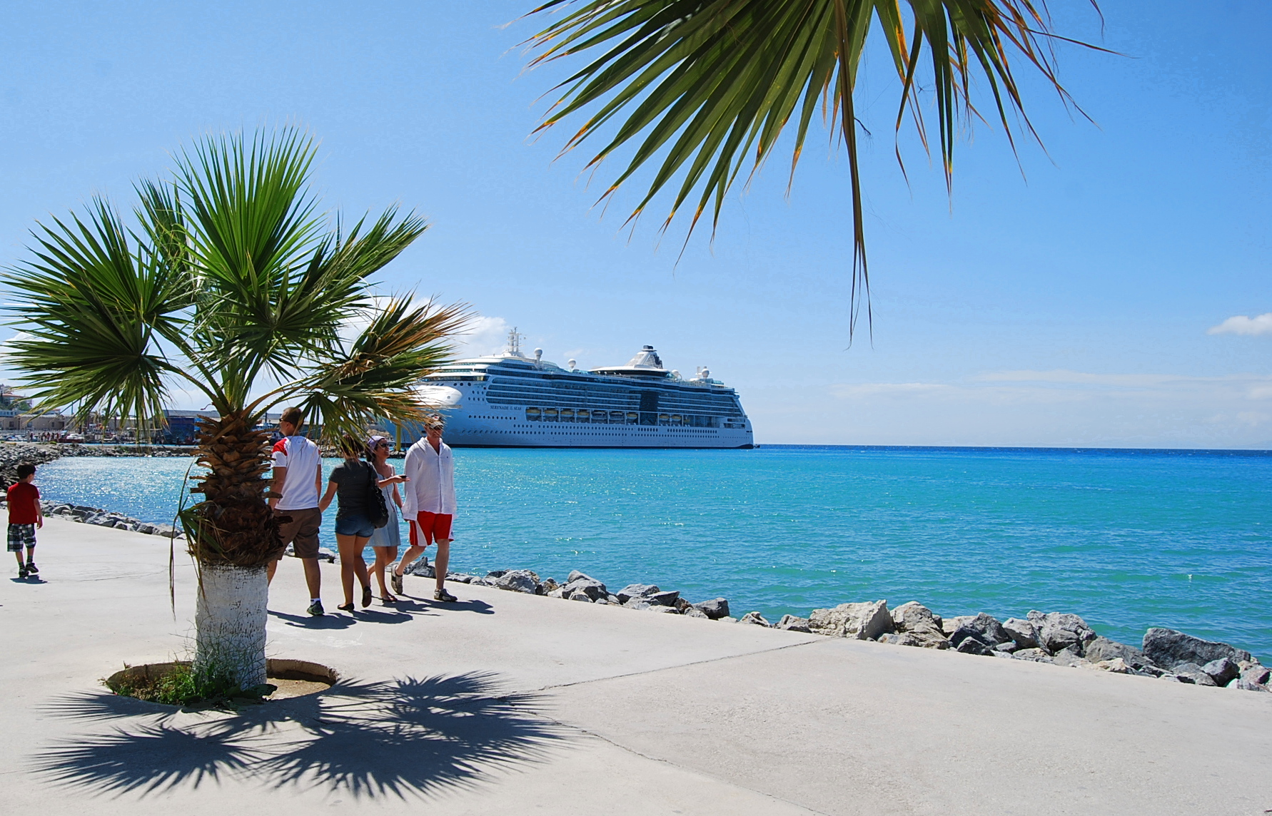 Kuşadası, Kusadasi, Кушадасы — city in Turkey